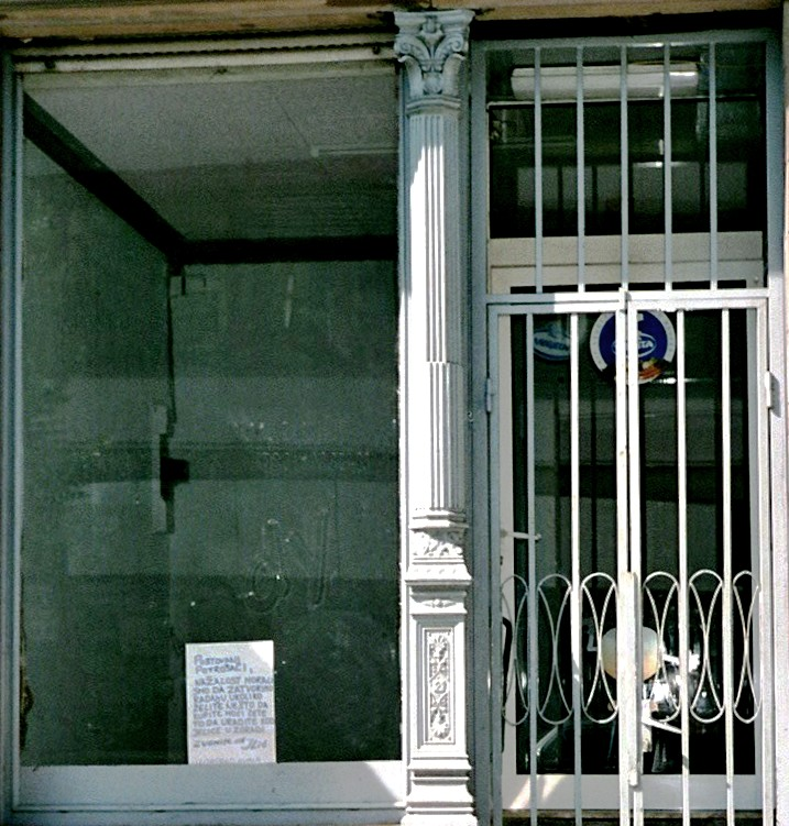 Hn-wilhelmstr64 Laden im EG mit schmiedeeiserne Arbeit.JPG